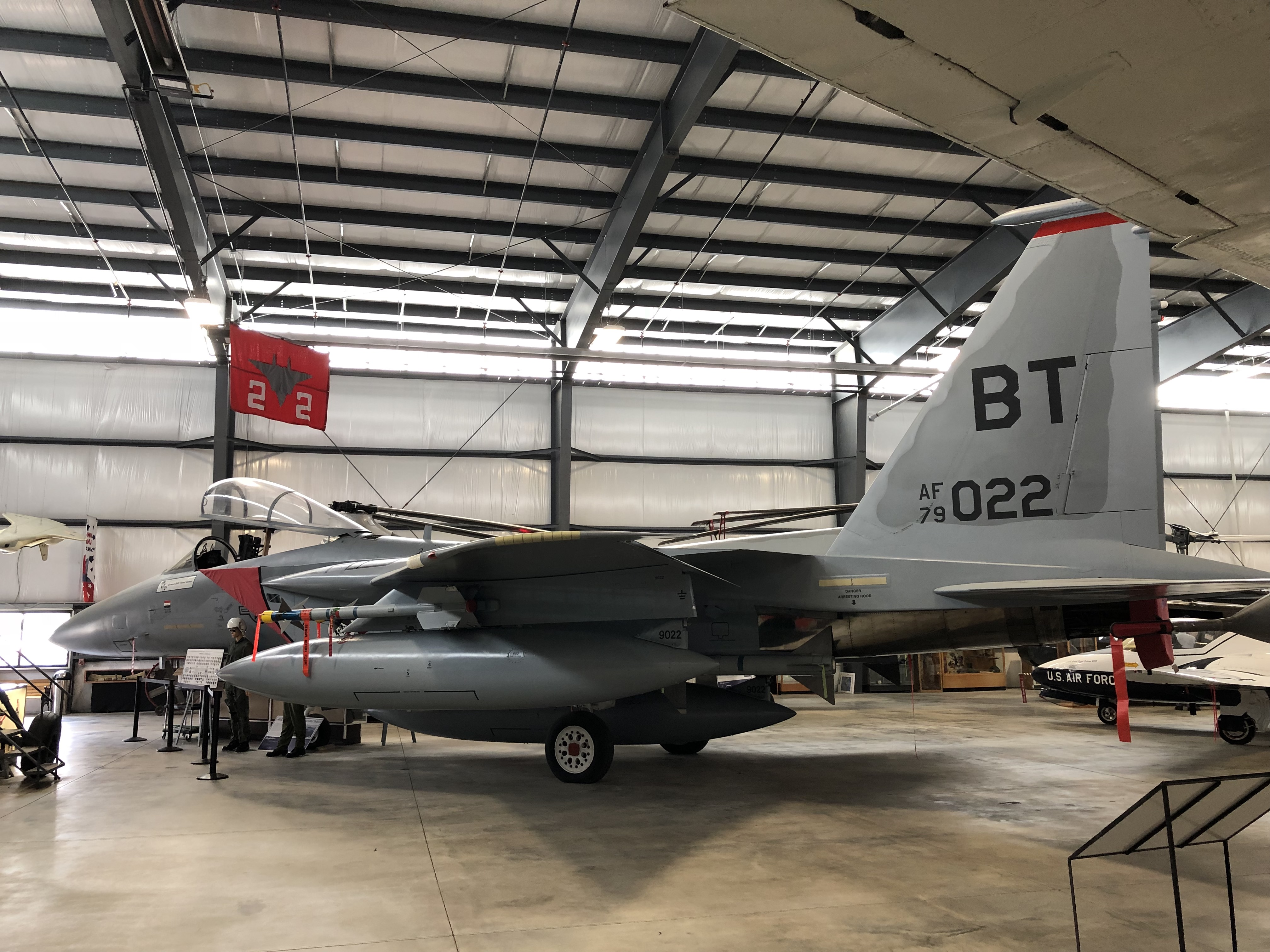 Pueblo Weisbrod Aircraft Museum recently acquired and restored F-15C Eagle, AF Serial Number 79-0022. This aircraft downed an Iraqi MiG-23 on 28 January 1991.